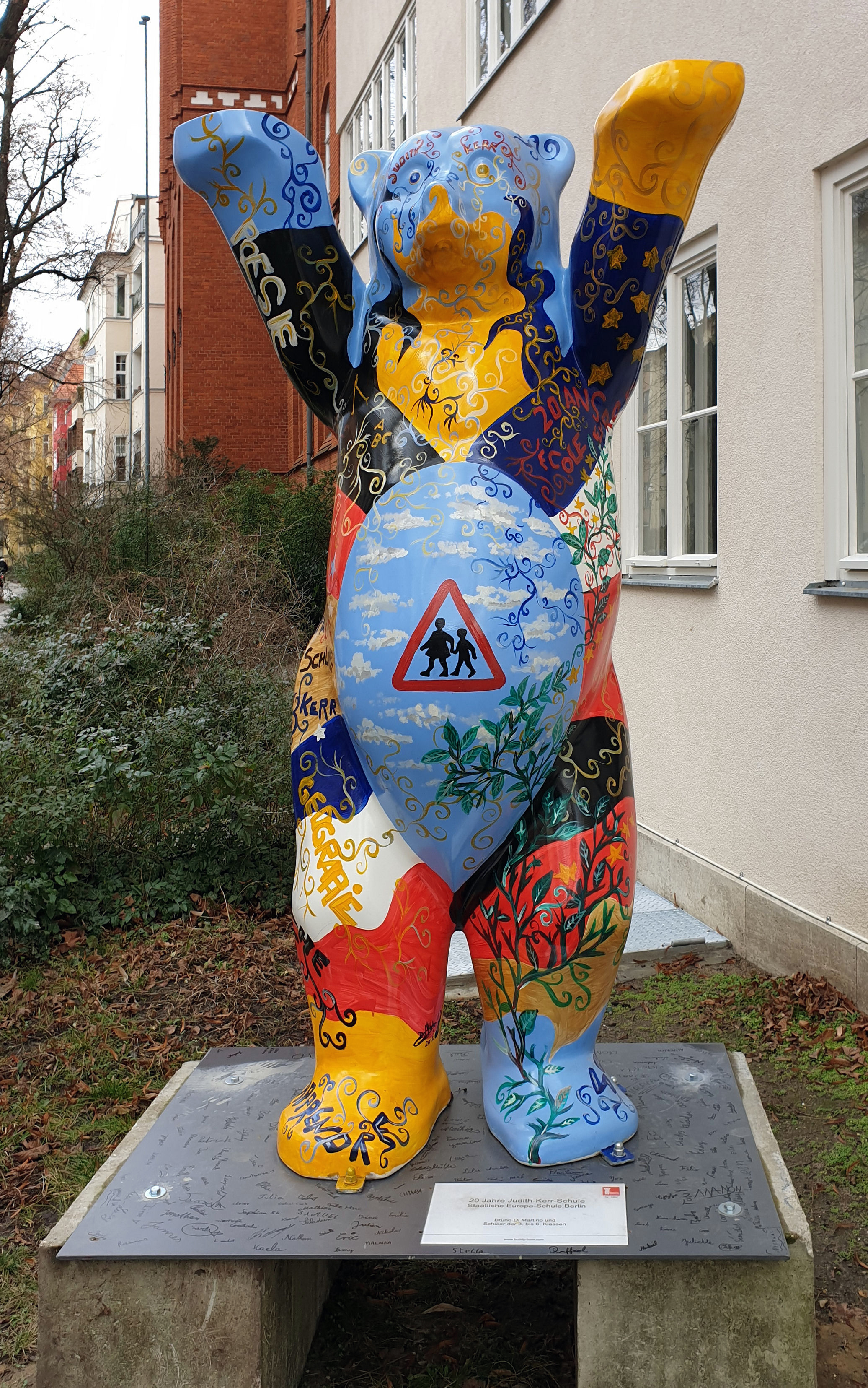 Judith-Kerr-Bär, Friedrichshaller Straße 13, Berlin-Schmargendorf, Germany